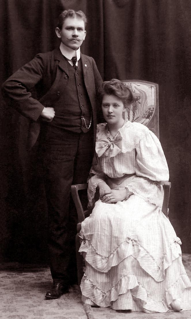 Stefan Anderson (1878-1966) & Ragnhild Sandberg (1887-1984) at their engagement, as released by image owner FamSACPlace: Ludvika (or Stockholm?), Sweden